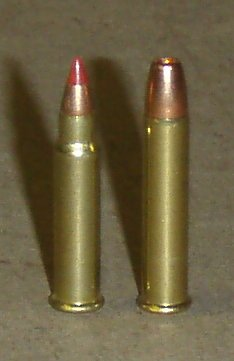 17 HMR and 22 WMR rimfire cartridges